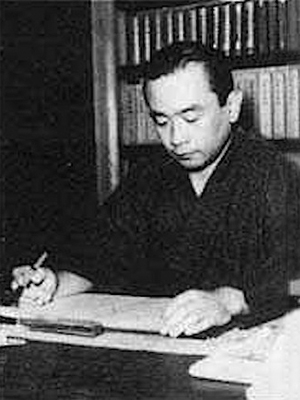 Isoya Yoshida (1904–1976)